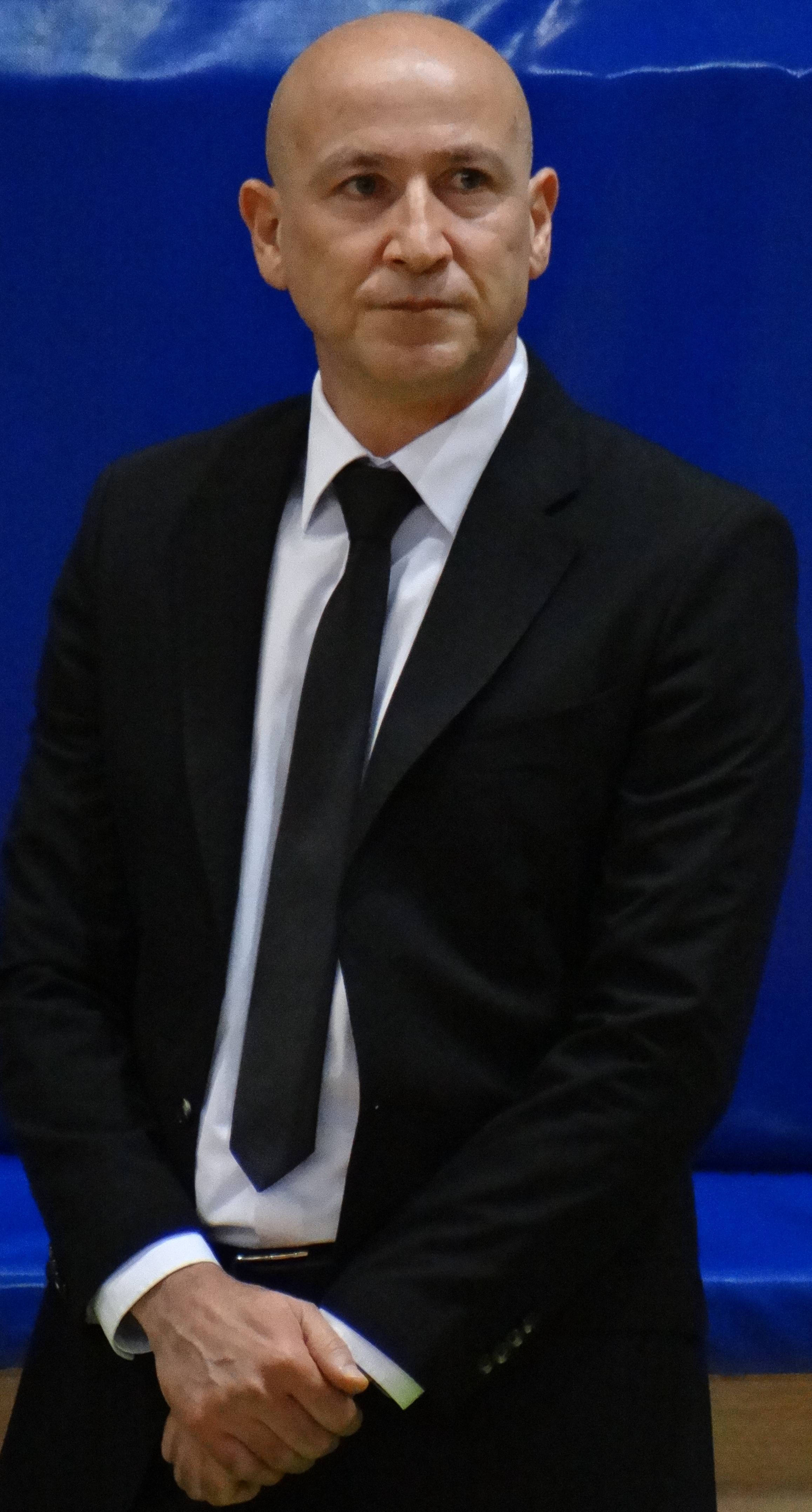 Ceyhun Yıldızoğlu Çukurova BK TWBL 20181229